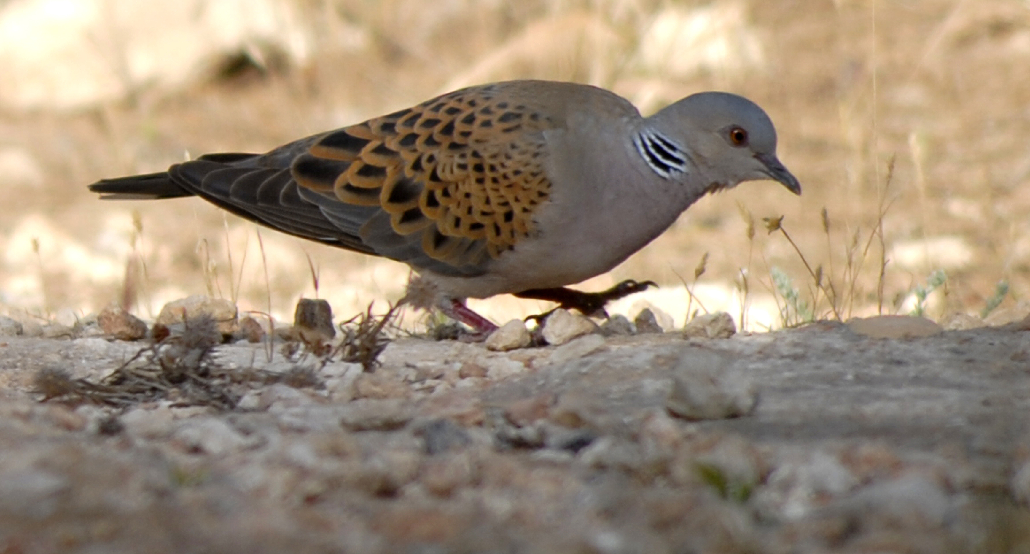 Turtle Dove in spain